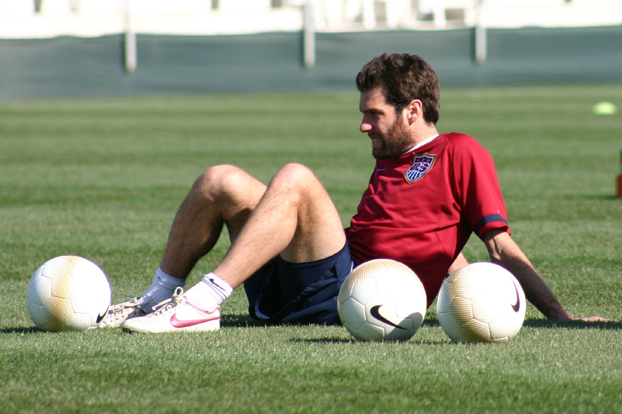 Ben Olsen, during USMNT practiceIMG_0240